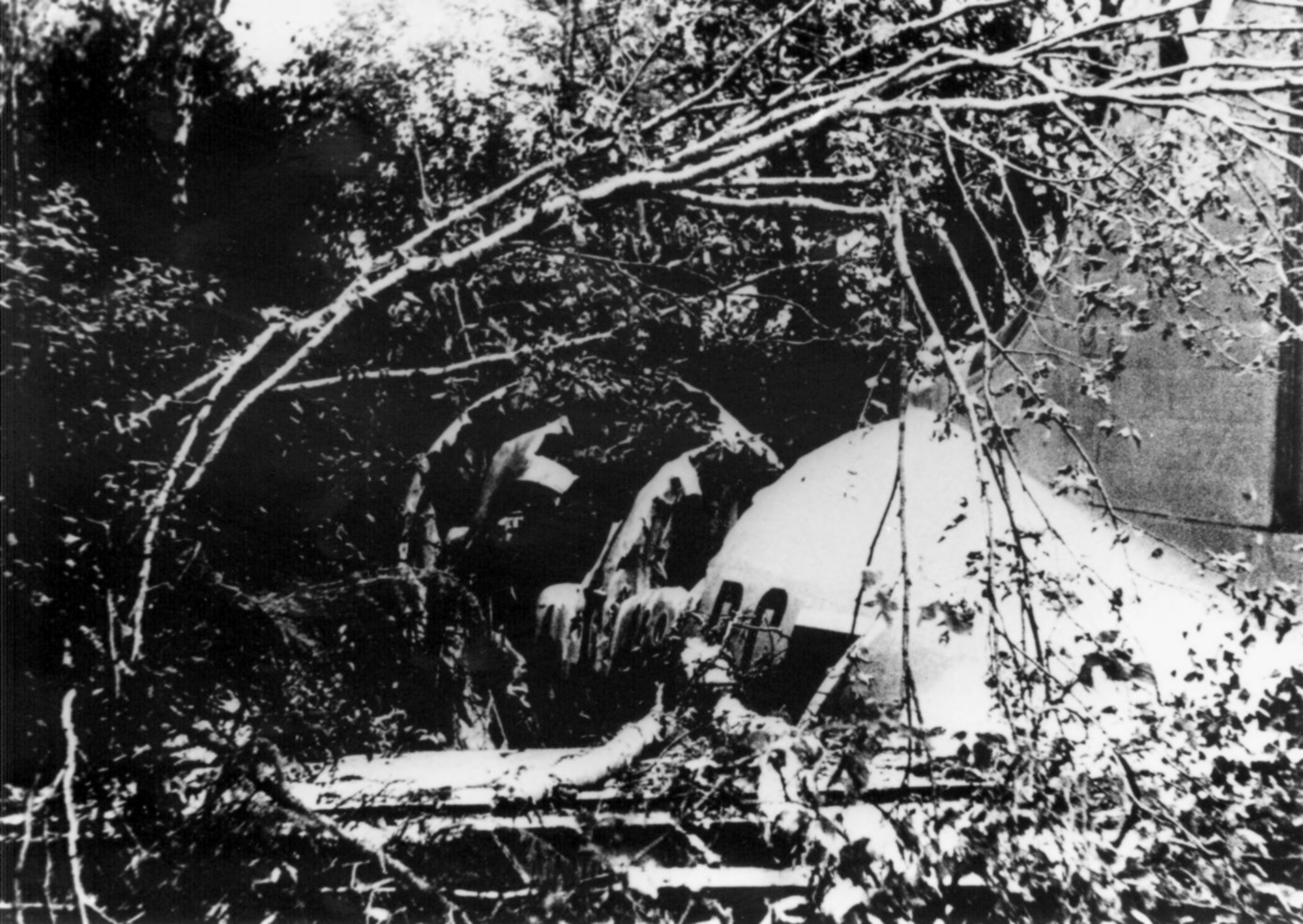 The crash site of a Belgian SABENA Douglas DC-4, cica 35 km south-west of Gander International Airport, Newfoundland. The DC-4 OO-CBG crashed due to a pilot error on the approach to Gander on the flight from Brussels (Belgium) to New York (USA) on 18 September 1946, killing 27 of 44 people on board. Rescue teams, mainly from the U.S. Coast Guard, made the first helicopter rescue and saved the remaining passengers, most of whom were injured.